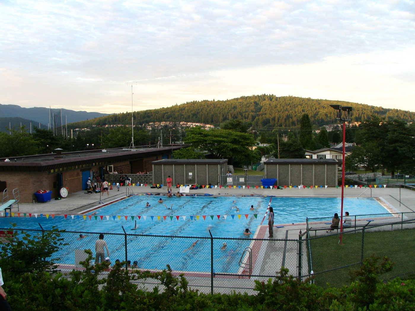 This image was created by me, Flying Penguin of Pacific Spirit Photography of Burnaby, British Columbia, Canada